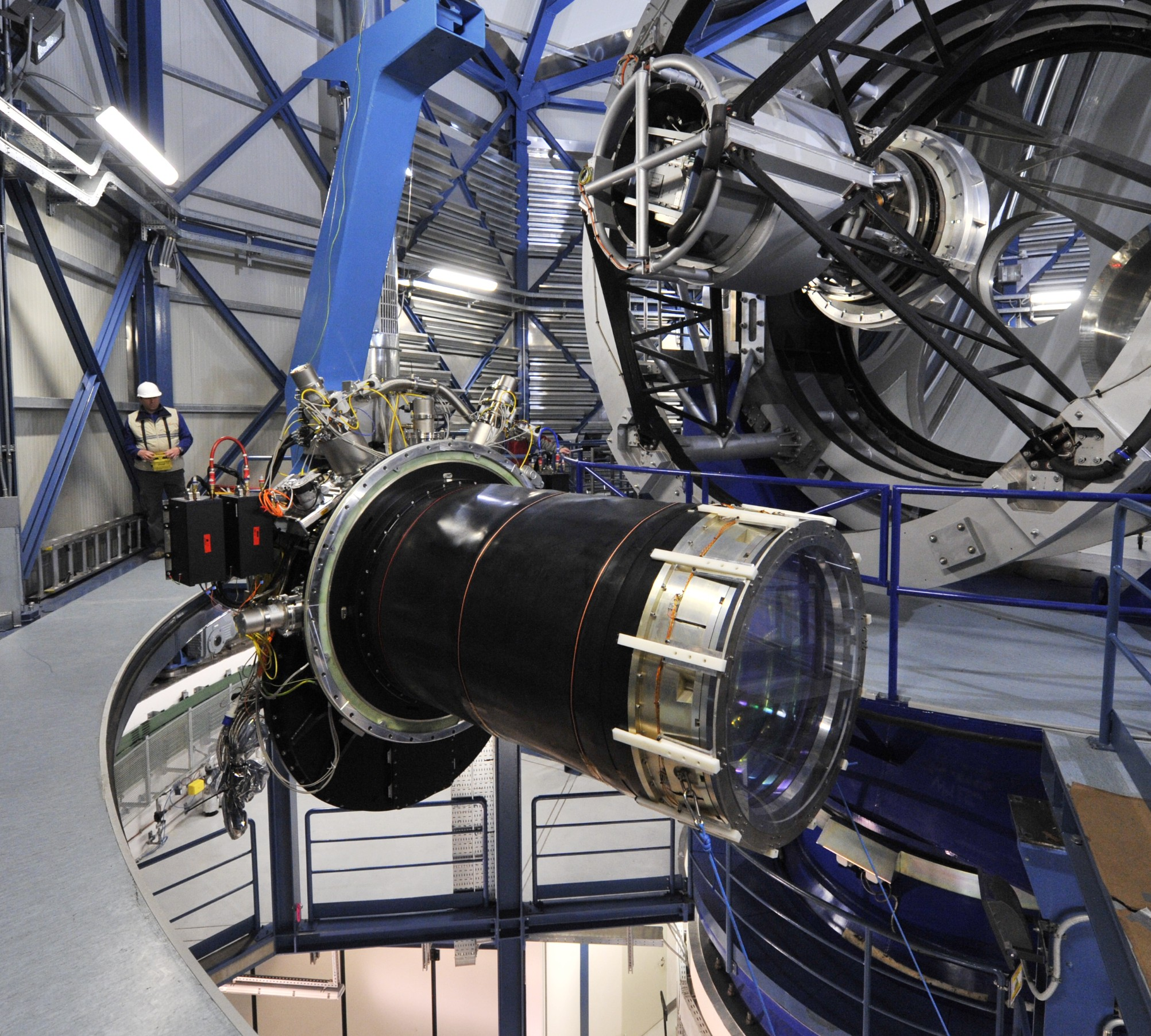 The three-tonne VISTA infrared camera hangs in the air in front of the telescope after it was removed to allow VISTA's main mirror to be re-coated. Towards the right the optical window that seals the camera glints in the artificial light and on the left the complex cryogenic cooling and electronic systems for the sixteen infra-red-sensitive detectors can be seen. Observing at wavelengths longer than those visible with the human eye allows VISTA to study objects that are otherwise impossible to see because they are either too cool to shine, obscured by dust clouds or because they are so far away that their light has been stretched beyond the visible range by the expansion of the Universe.